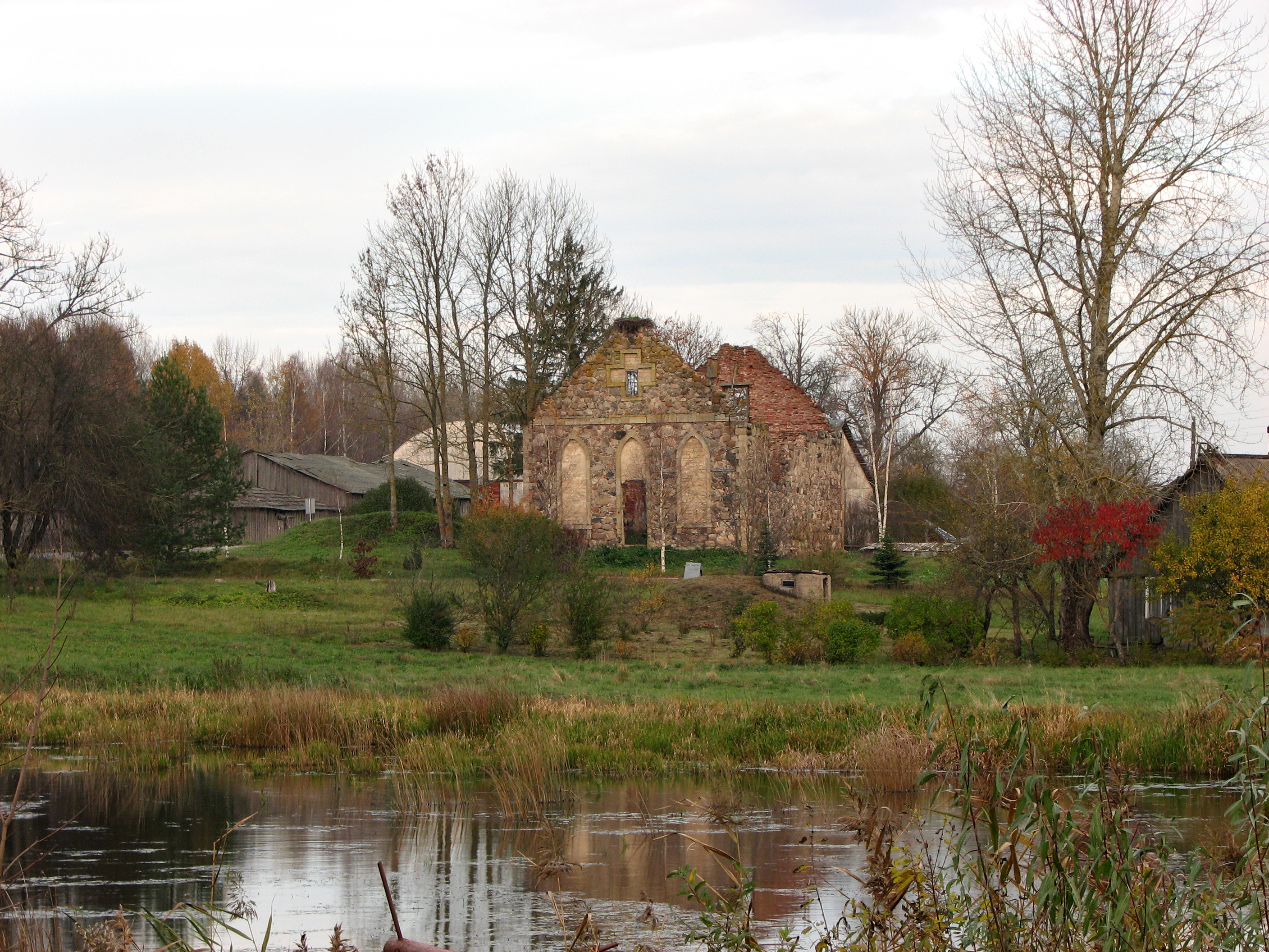 Ruins of church in AllažmuižaLatviešu: Baznīcas drupas Allažmuižā